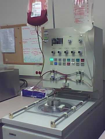 An image of the IBM 2991 Cell Washers deglycerolizing a unit of frozen red blood cells.